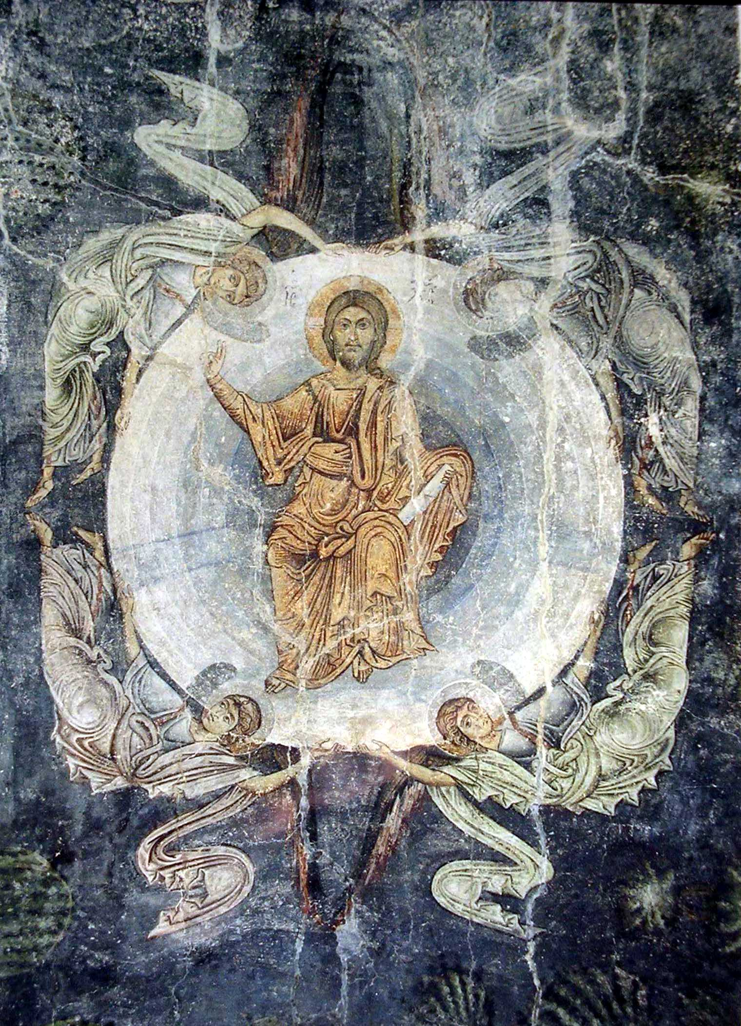 Paintings in St. Sophia Church in Ohrid, Macedonia